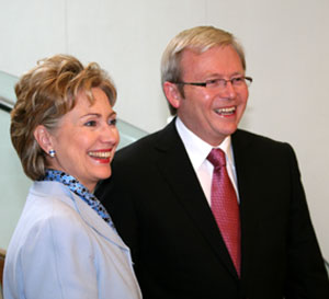 Hillary Clinton and Kevin Rudd